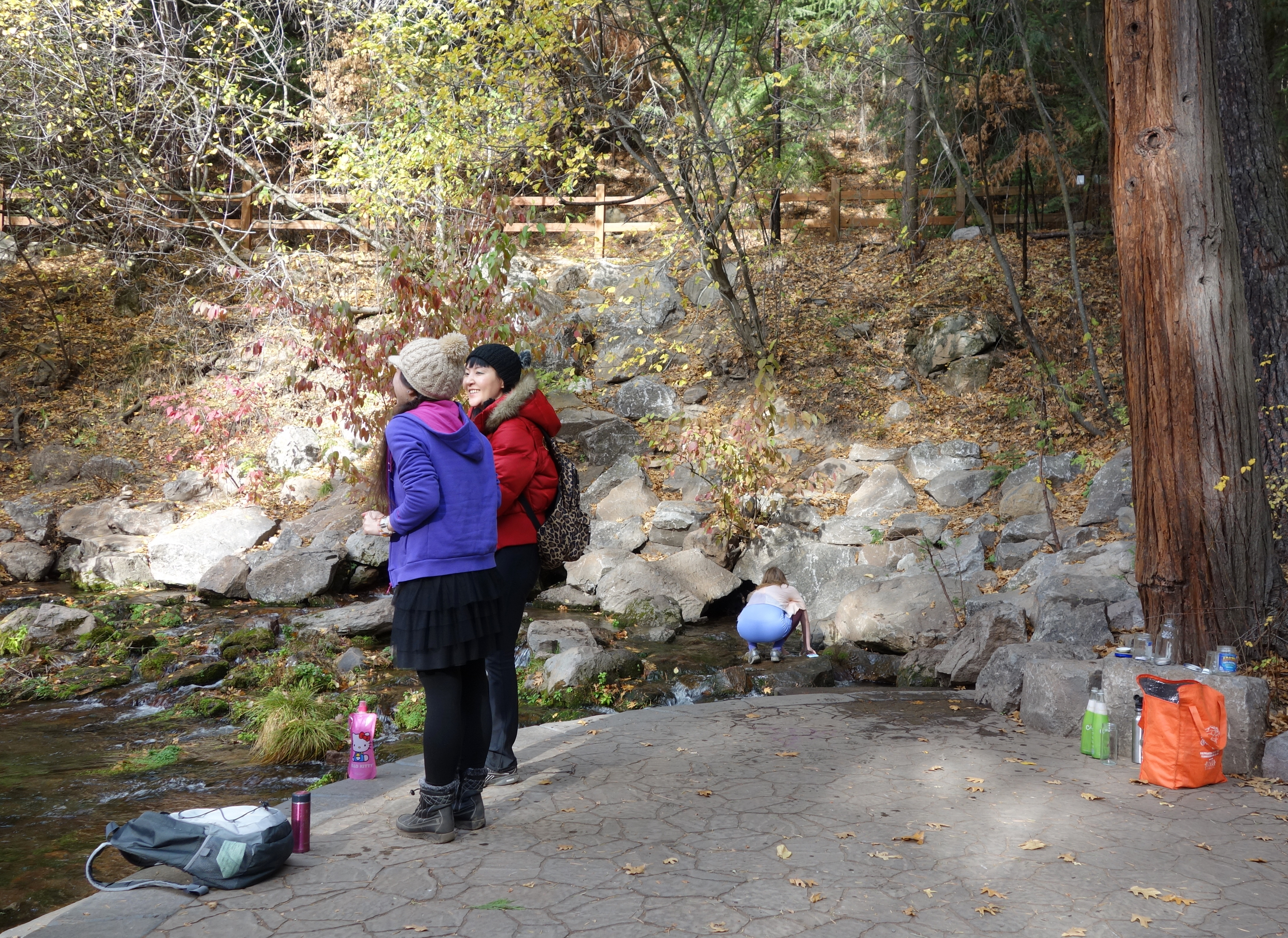 Mount Shasta Big Springs in Mount Shasta City Park - Mount Shasta City, California, USA.